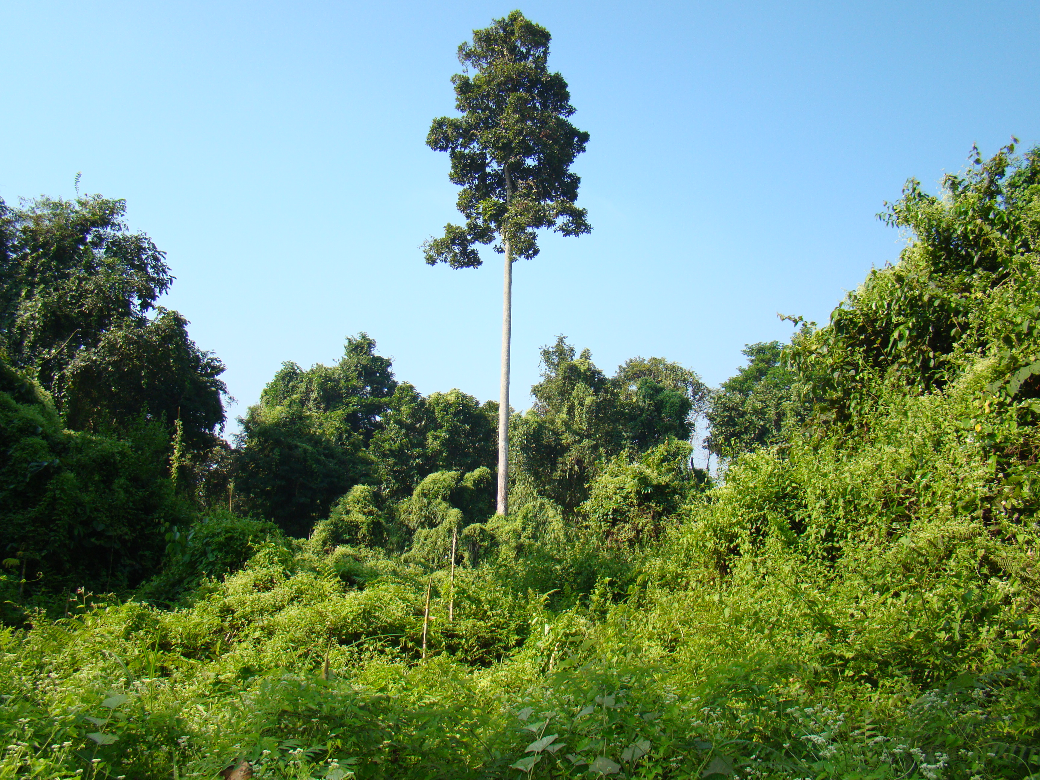 This is the degraded area of Hollongapar Gibbon Sanctuary